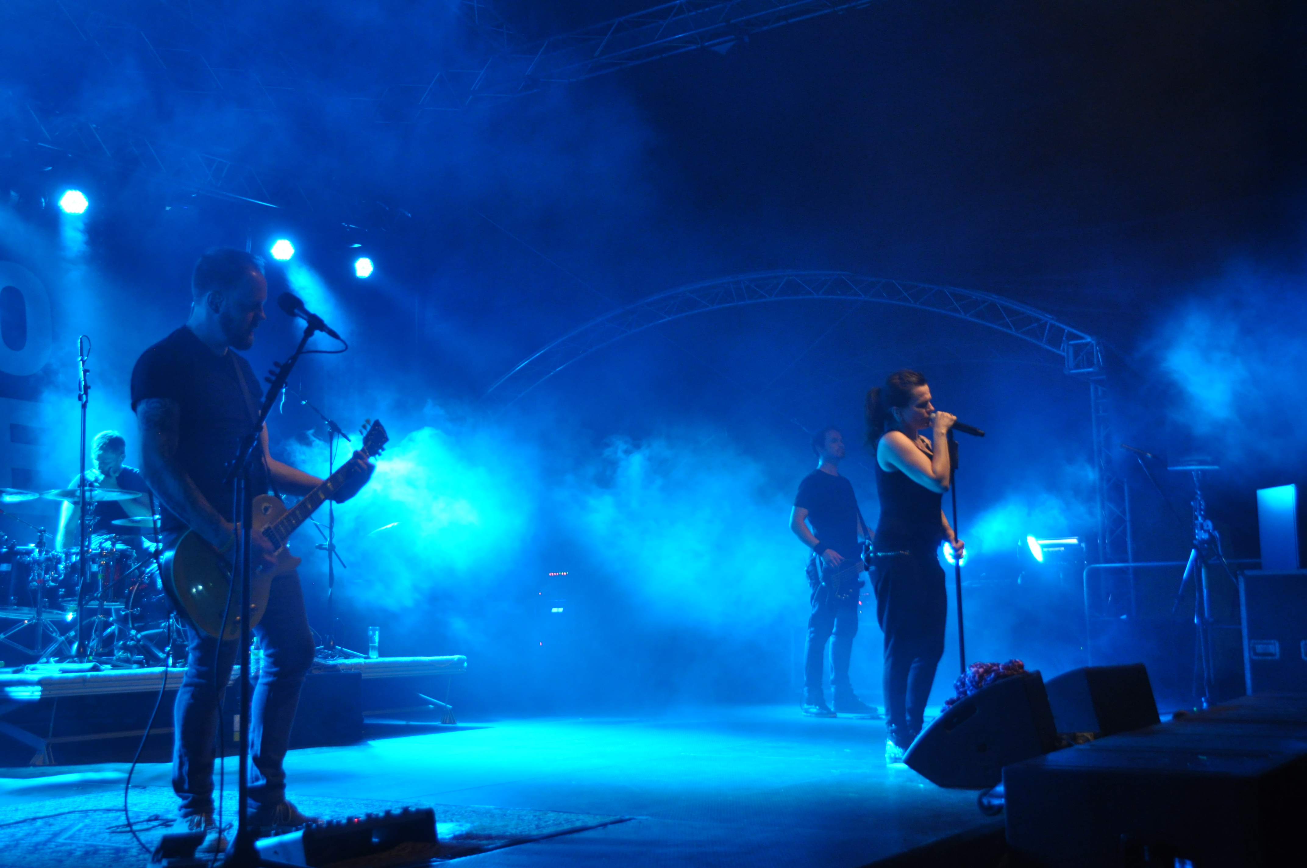 Die Happy, appearence at the 1st blacksheep festival in the castle yard / castle park of Bad Rappenau - Bonfeld (Germany)